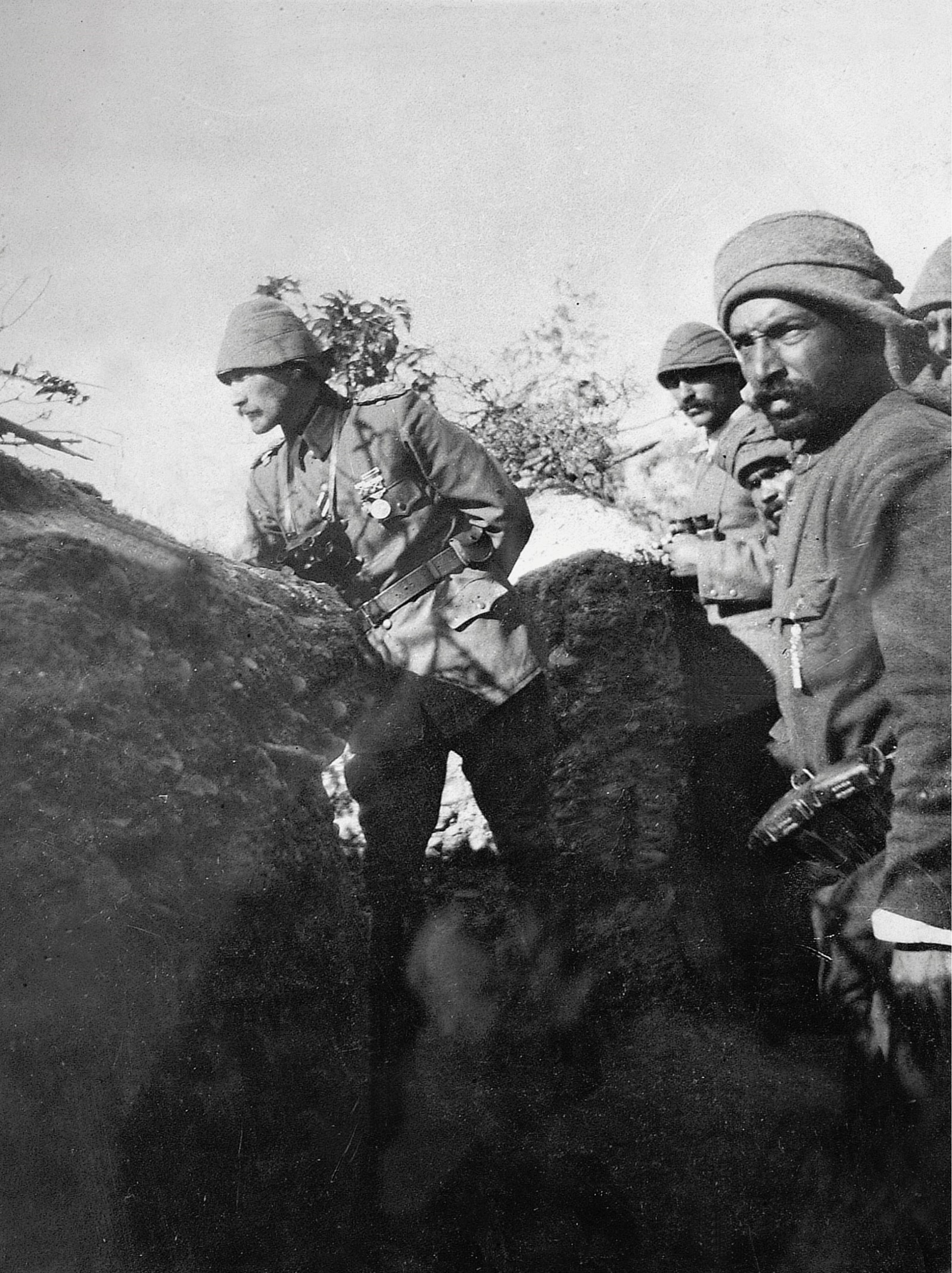 Mustafa Kemal (Atatürk) at the trenches of Gallipoli during the First World War.